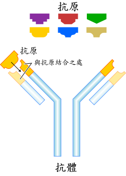 Schematic diagram of an antibody and antigens. Color scheme loosely made to match Image:Antibody scheme.svg. Light chains are in lighter blue and orange, heavy chains in darker blue and orange.